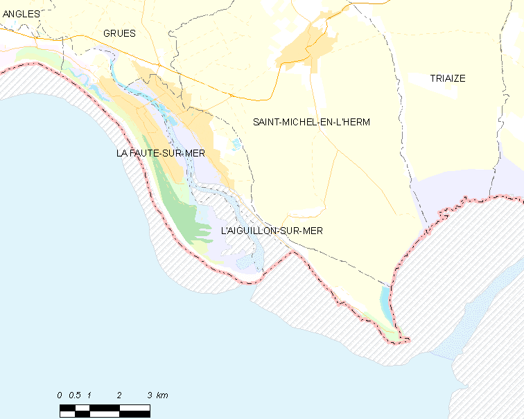 Map of French municipality L'Aiguillon-sur-Mer